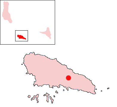 Ziroudani, Mohéli, Comoros Location Map; created with the GIMP. Made by User:Acntx.